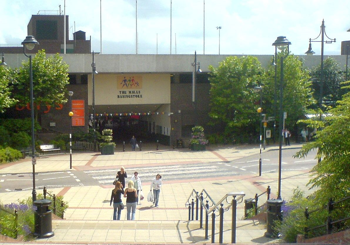 View of The Malls, Basingstoke from the Train Station. Picture taken by Digimanpk on 20th June 2007. Copyright Copyright 2007 Muhammad Durrani